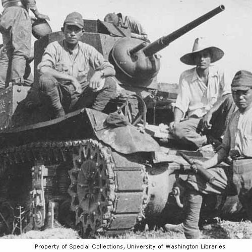 Original caption: "A Japanese tank crew poses with their tank on Attu sometime in 1943. Photograph later captured by US forces."Note: Actually, this is a photo of 2 Japanese soldiers and a Filipino sitting on the front hull of a captured U.S. M-3 tank. The soldier in the foreground is holding a 37 mm shell from the tank's main gun. This photo was probably taken on Luzon where the U.S. 192nd and 194th Tank Batallions engaged the Japanese in the failed 1941-42 campaign. The lightweight uniforms and Filipino hat, along with the tanks origin, kind of exclude Attu as the venue of this picture.